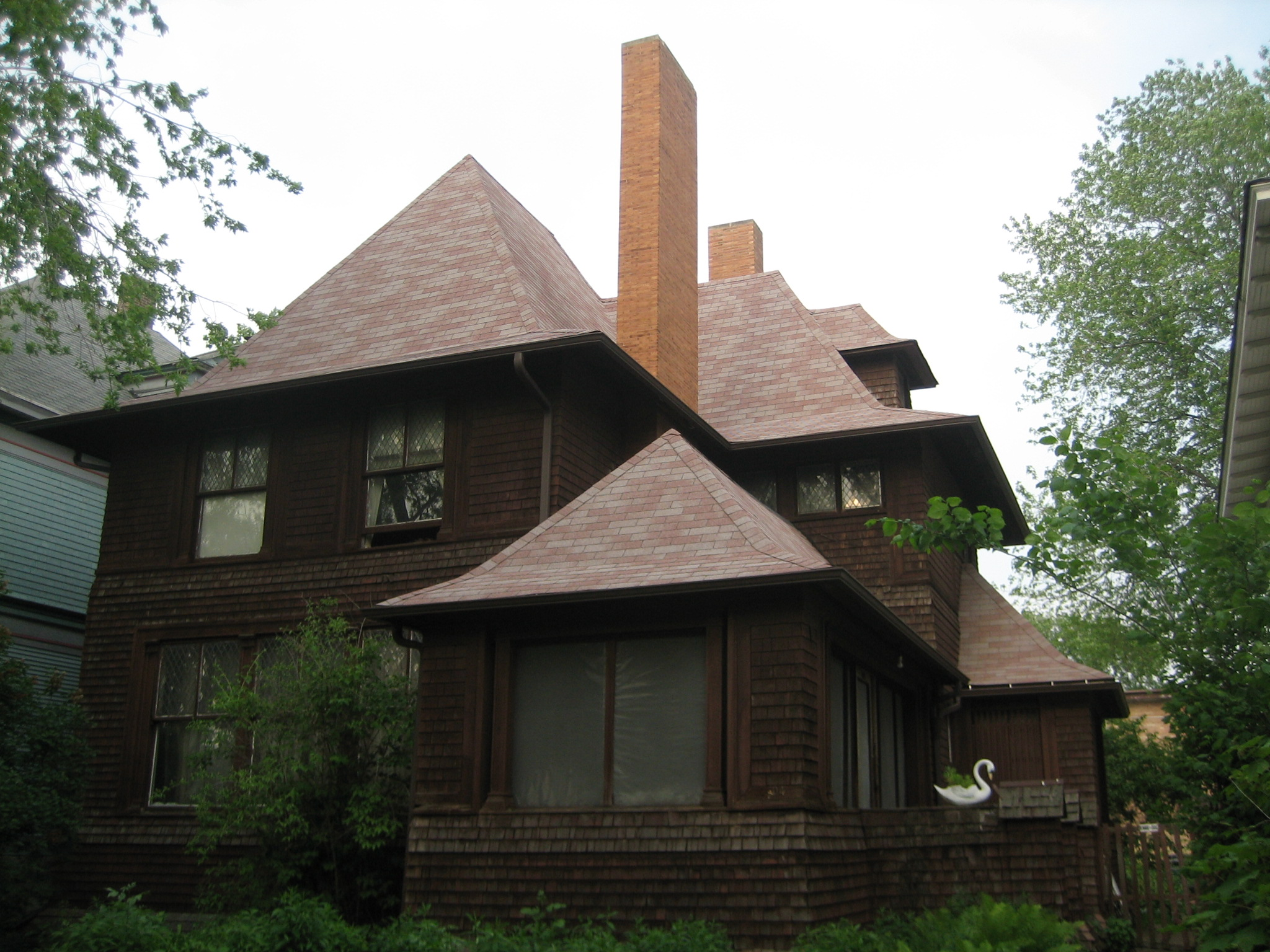 The George W. Smith House, designed by Frank Lloyd Wright in 1895, built in 1898 and located in the Chicago suburb of Oak Park, Illinois. Contributing property to the Ridgeland-Oak Park Historic District listed on the U.S. National Register of Historic Places